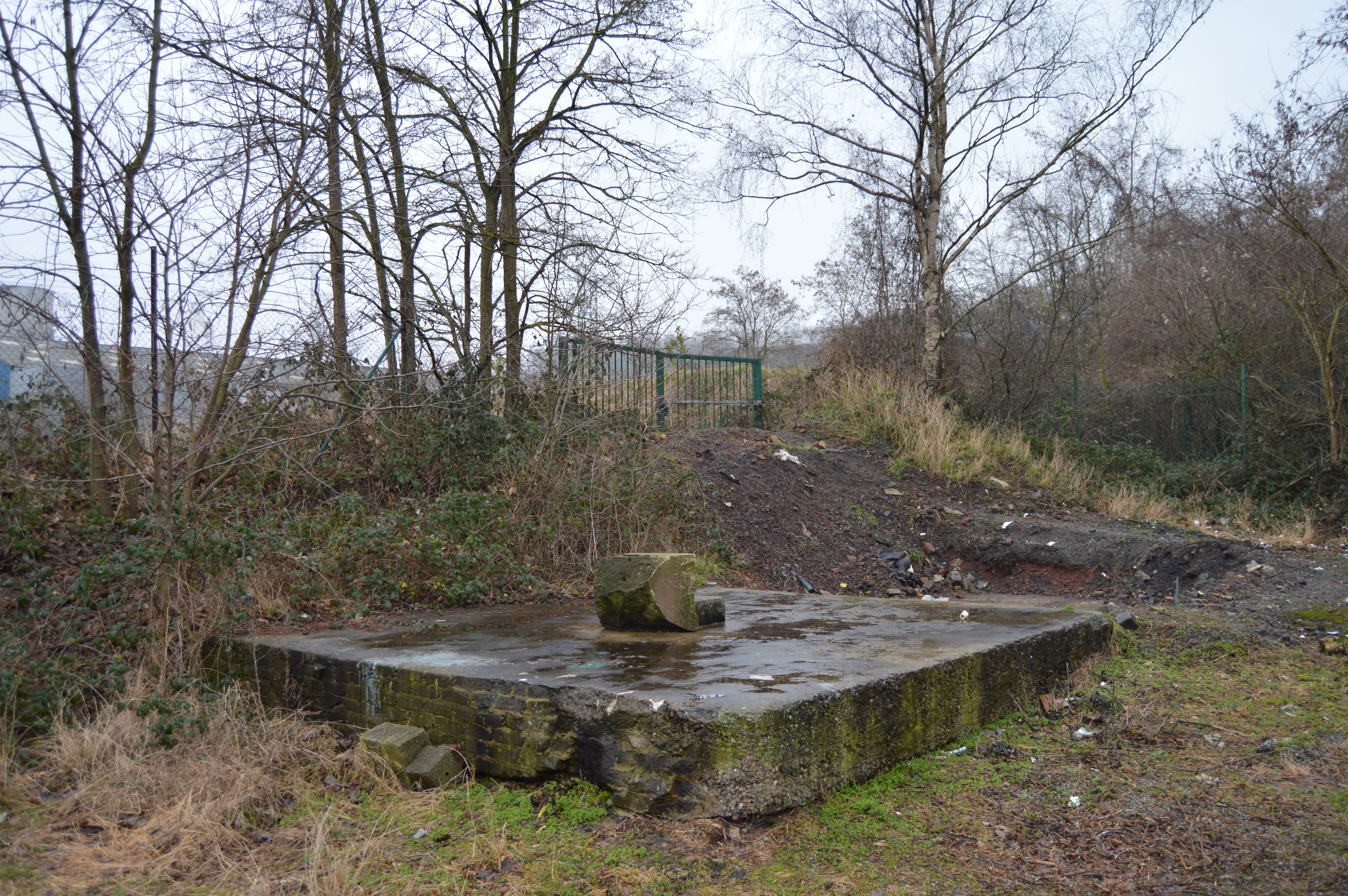 Ancient pit of the Old Marihaye coal mine in Seraing, Belgium